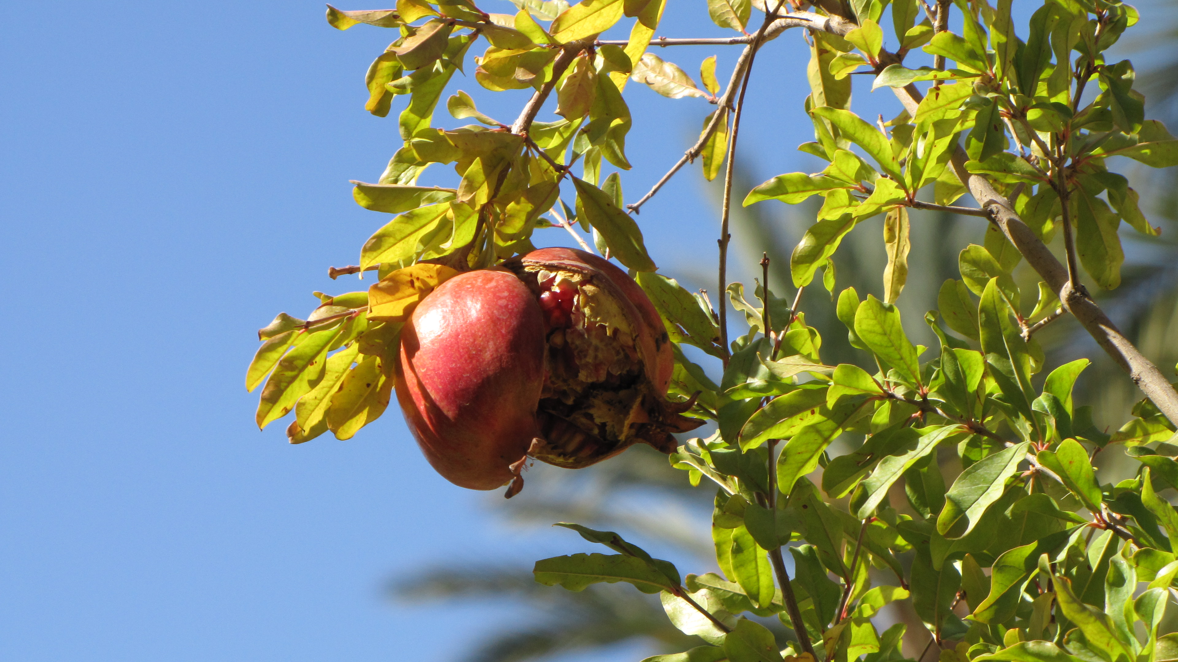 Wild grenade in the canyon of Ghoufi, Batna province in Algeria